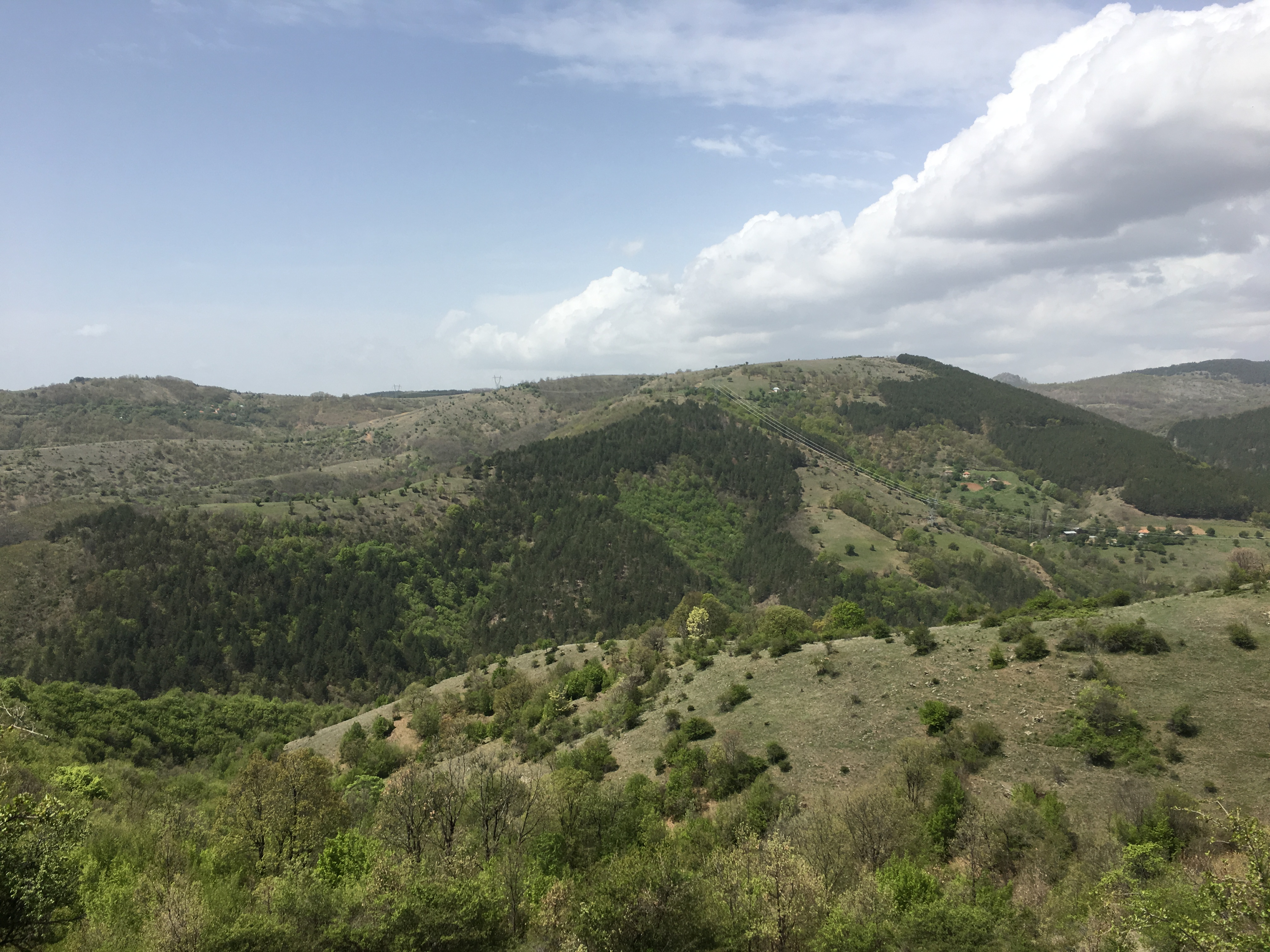 A view of the village of Lozanovo